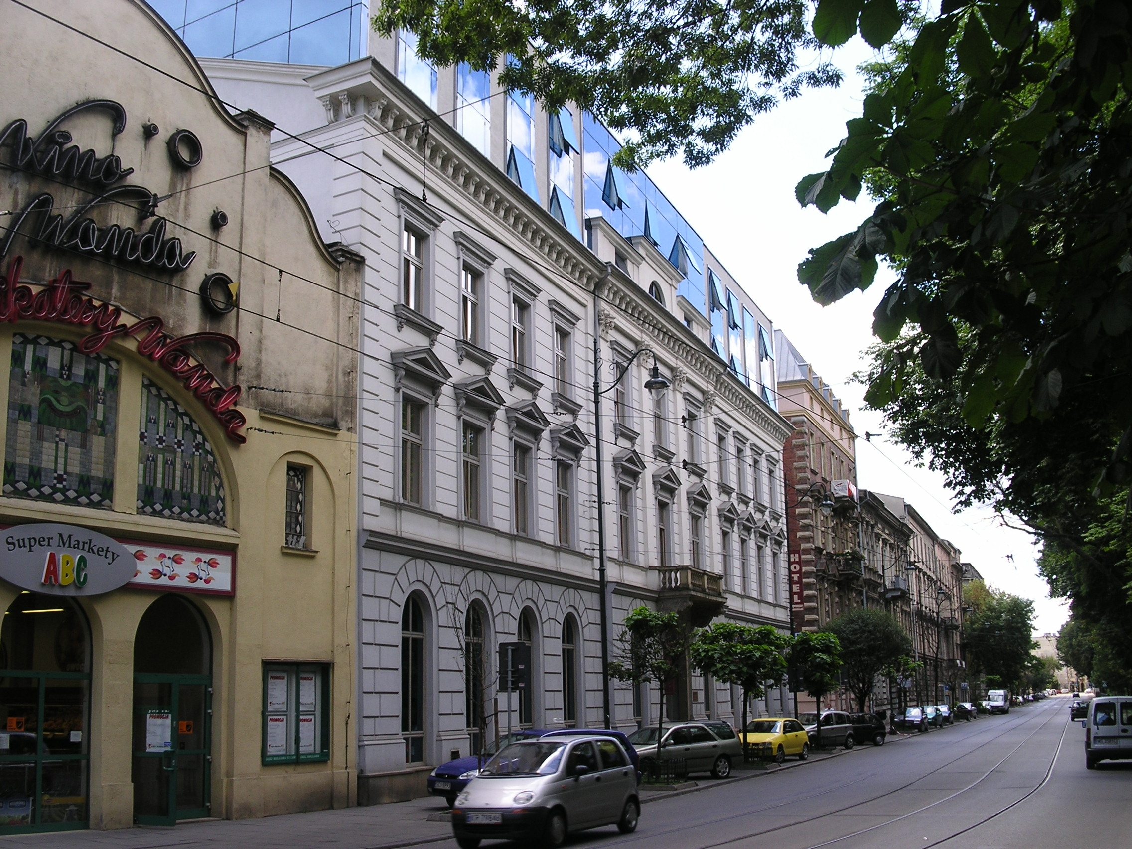 Monopol Hotel, Cracow, Poland